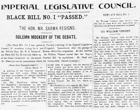 News headlines about the Rowlatt Bills (1919) from a newspaper in India.